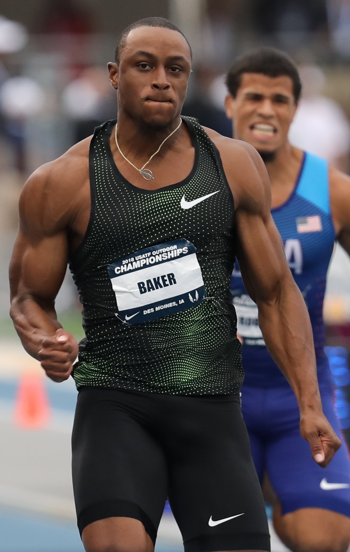 2018 USA Outdoor Track and Field Championships